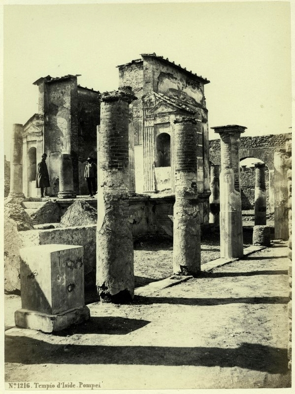 Giorgio Sommer (1834-1914), "Pompeii. Temple of Isis". Catalogue # 1216 bis.